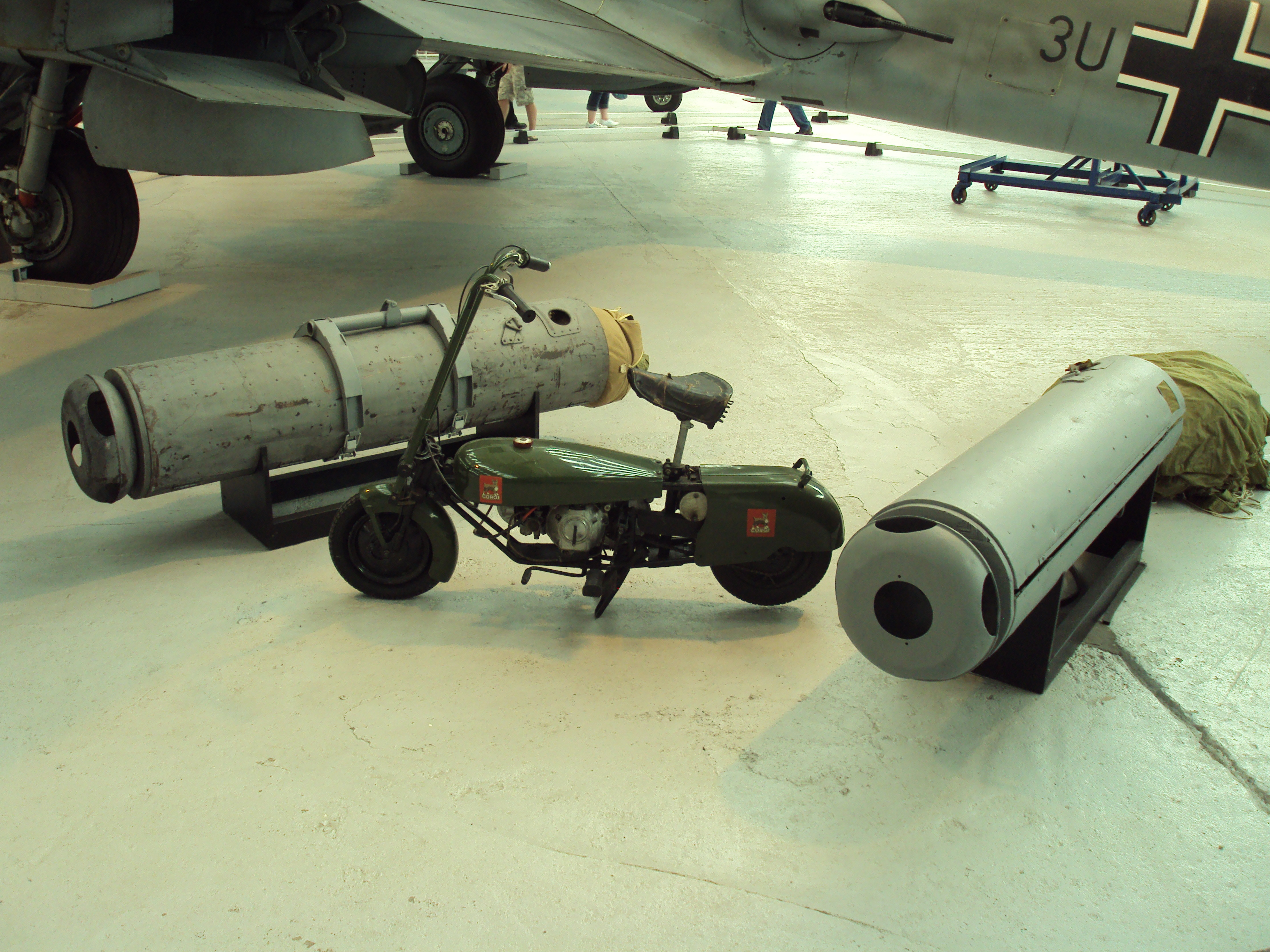 Photo of parachute-dropped military scooter taken at the RAF Museum Cosford, Shropshire, England.